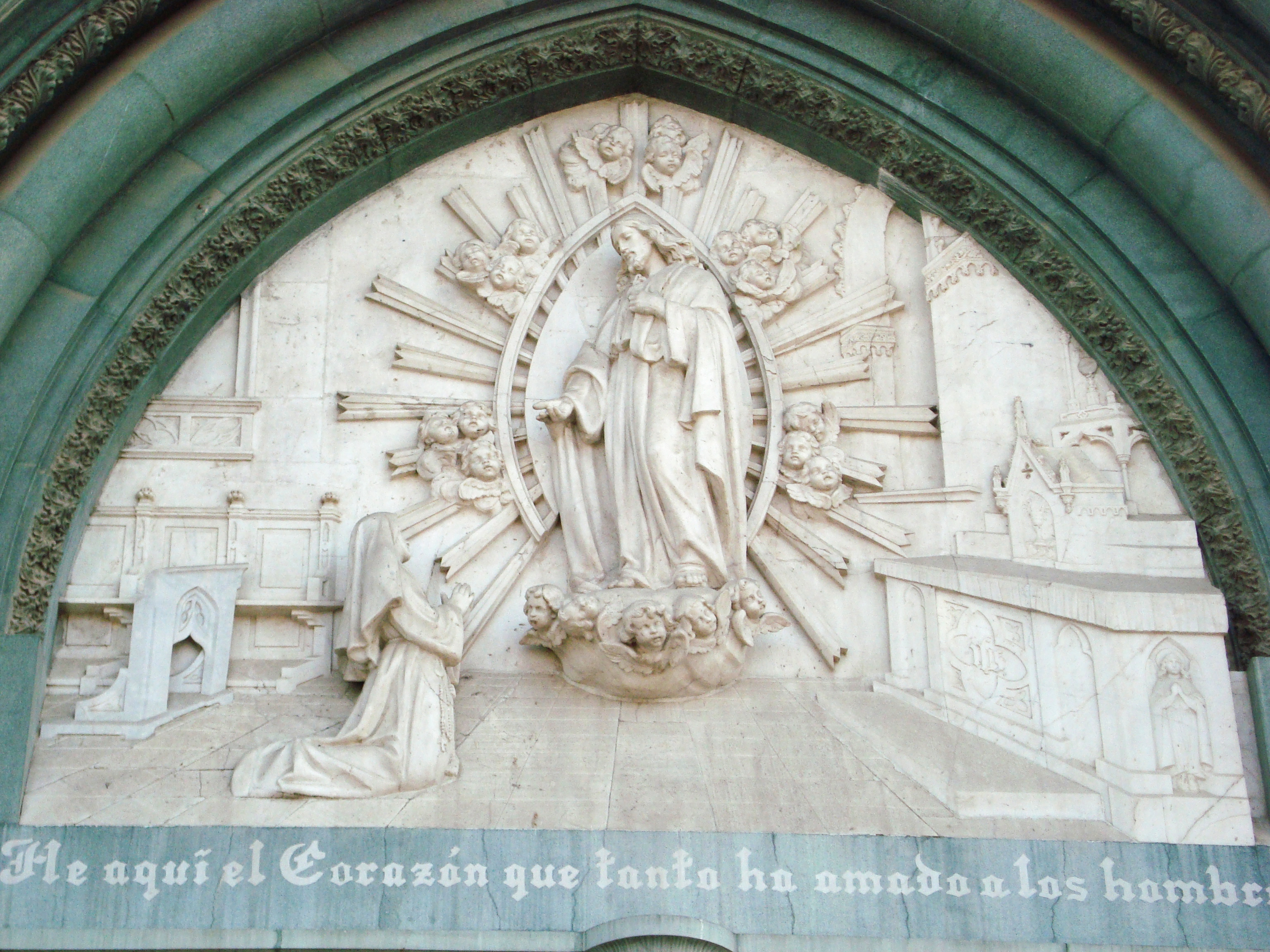 timpano